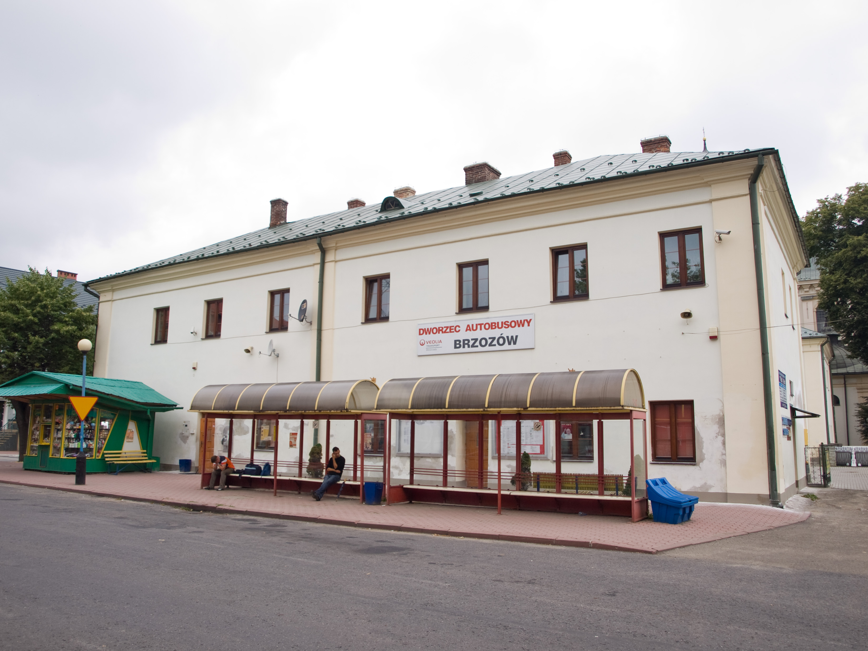 Bus station, Brzozów, Subcarpathian Voivodeship